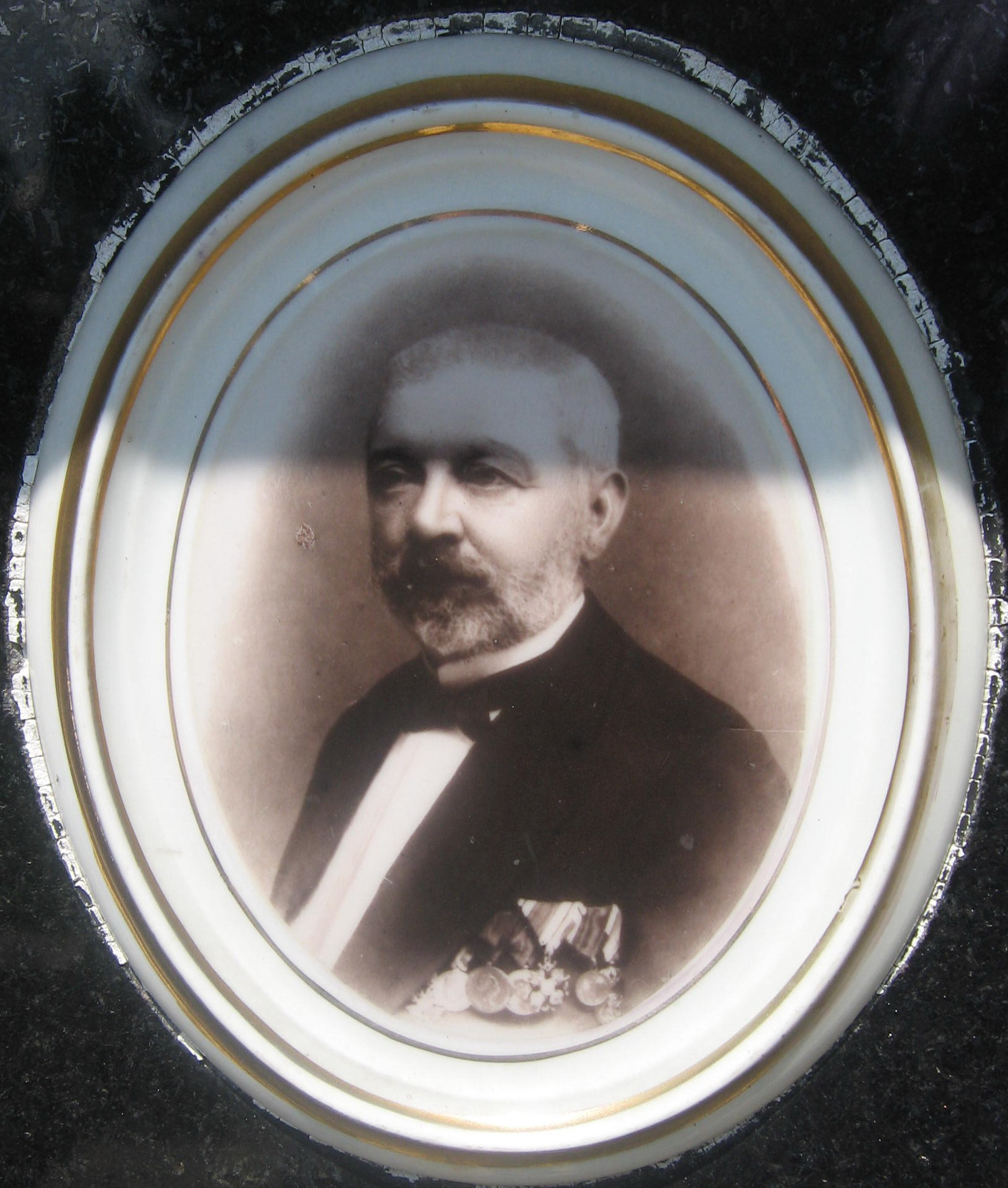 Pacea Cemetery in Suceava - Tomb of Franz Des Loges.